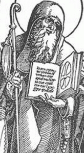 St. Severinus.